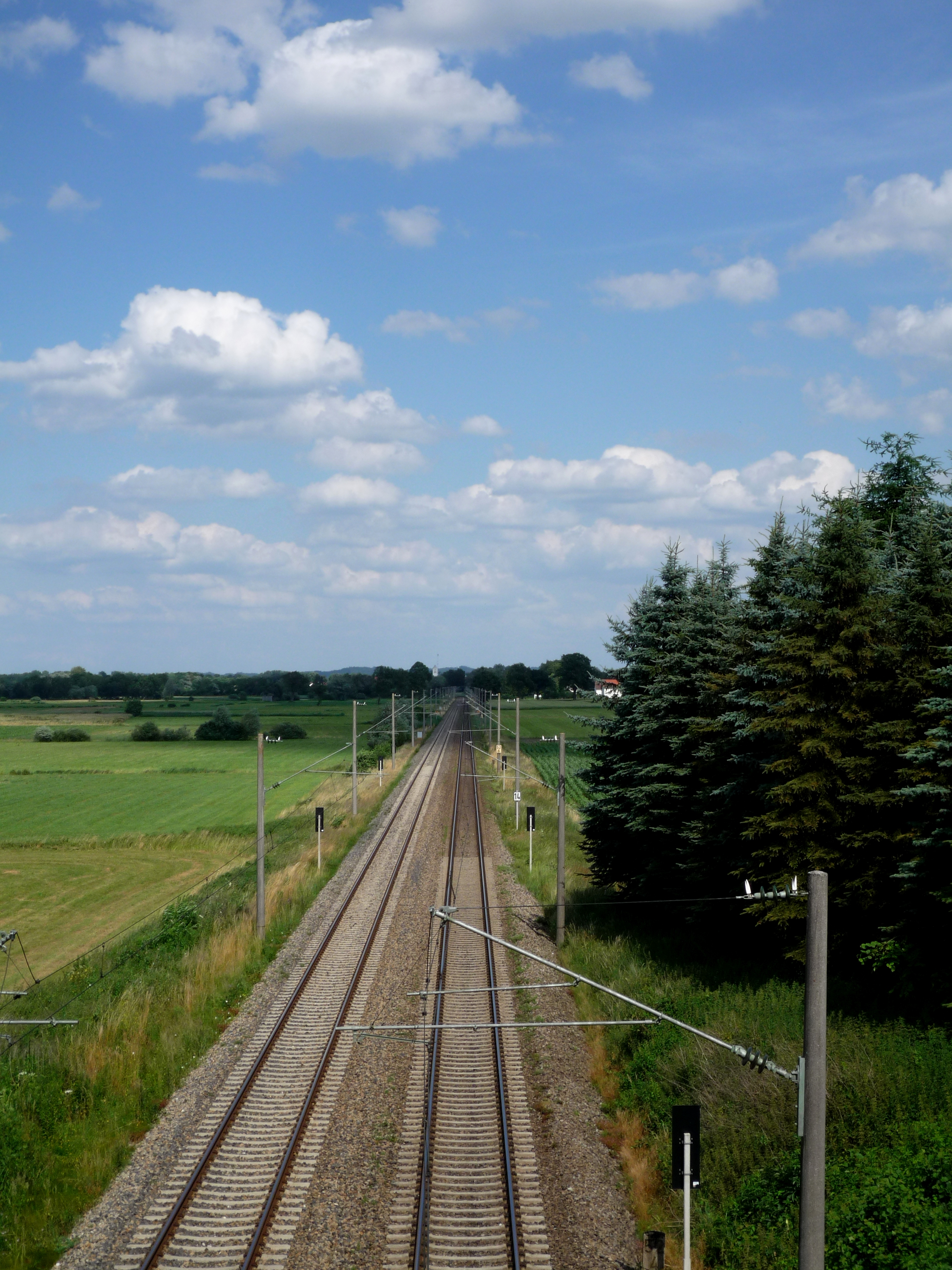 Railway Munich–Regensburg near Langenbach, Germany